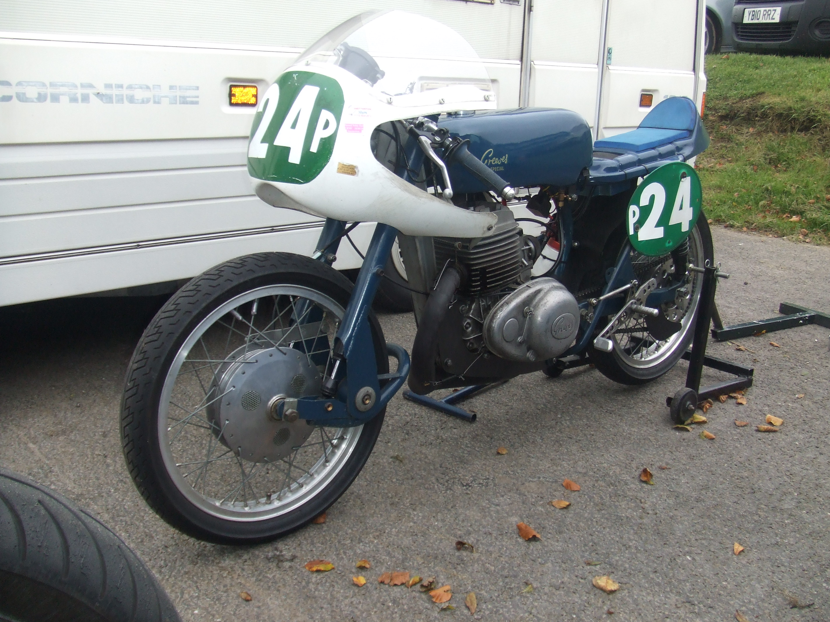 Greeves Silverstone 250 cc racing motorcycle, mid 1960s style with correct-appearance top half fairing at a Classic meeting, Cadwell Park, Lincolnshire, England in 2010